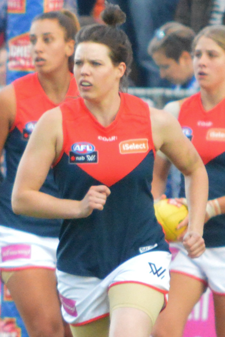 Elise O'Dea during an AFL Women's match in February 2017